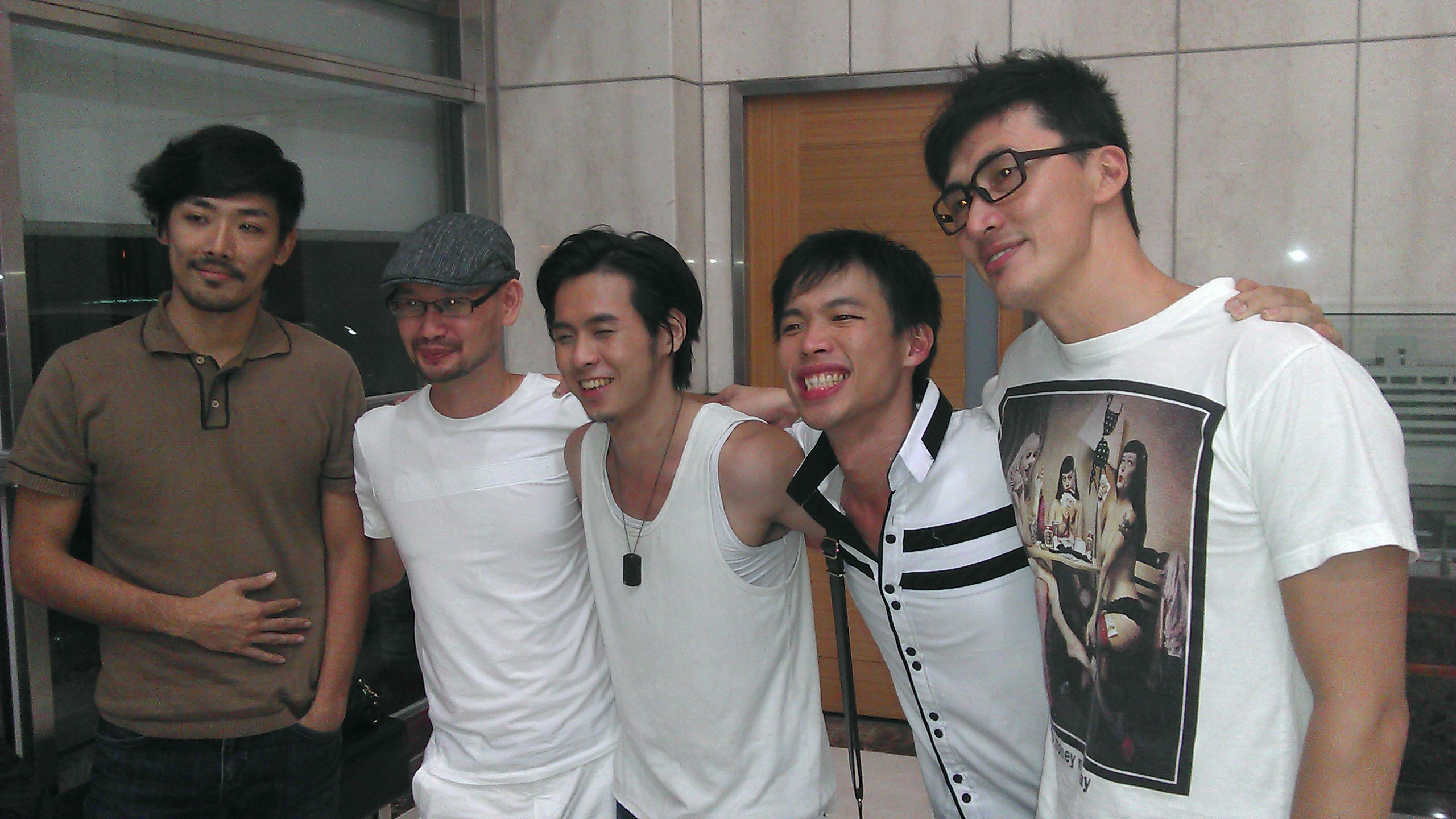 The competitors Yangjing Fan and Siwei Chen of the TV show Super Star: I Want to Be A Singer.